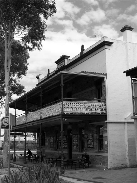 Imperial Hotel in the Sydney suburb of Rooty Hill.